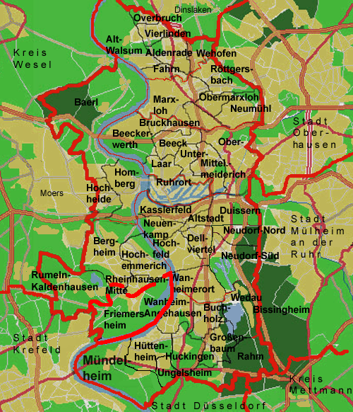 map of Friemersheim